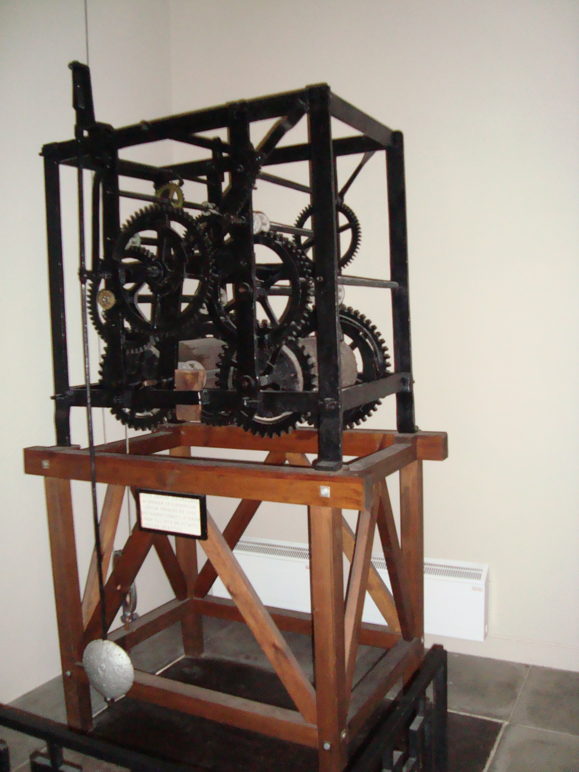 Old clockwork (from 1793) of church of By, Avesta Municipality, Sweden